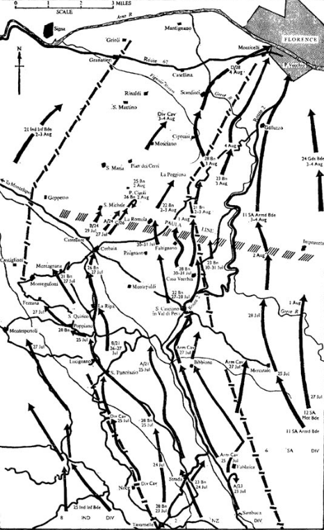 Map of Allied Advance to Florence during August 1944